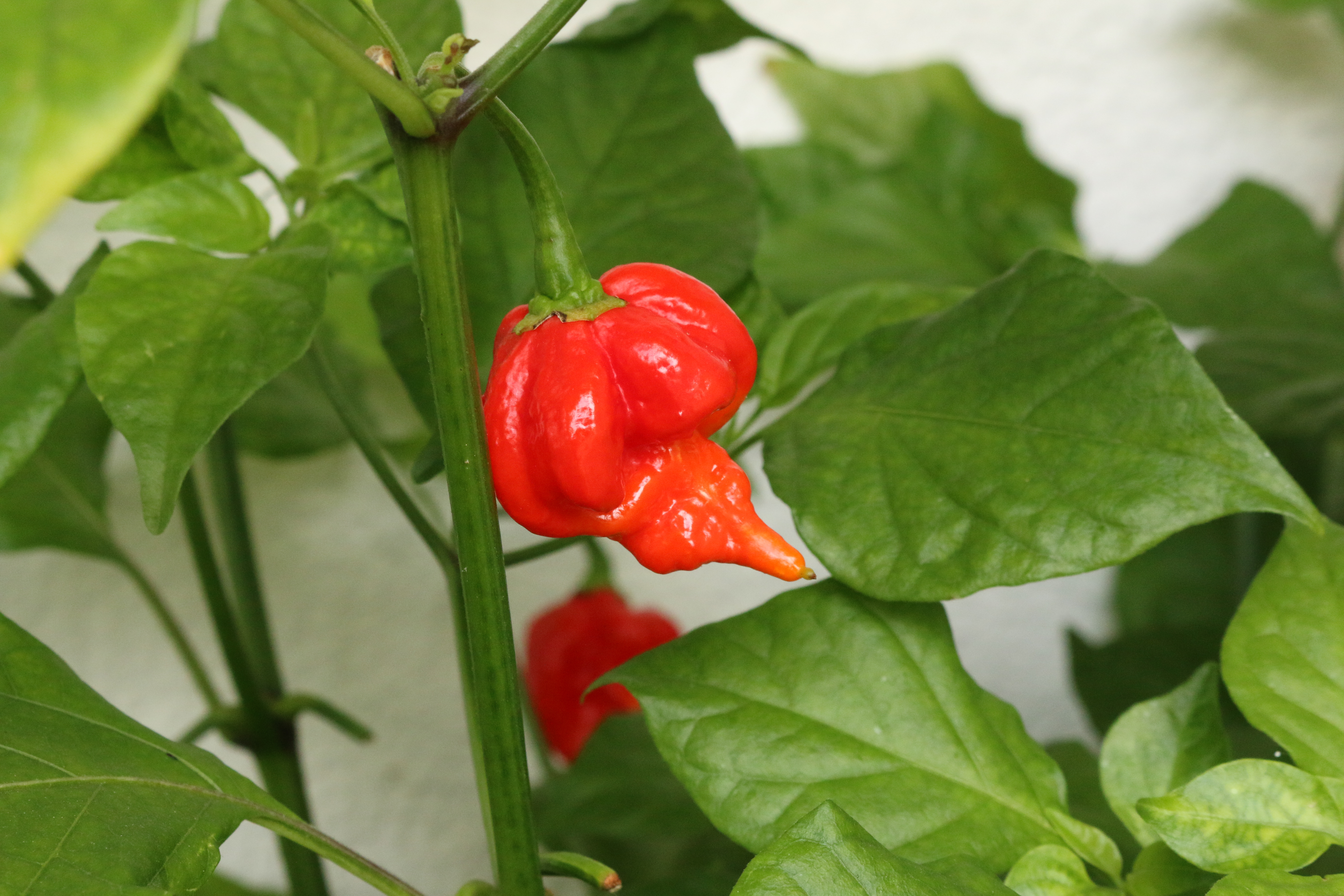 Trinidad Scorpion Butch T Chili ripe on a plant. Classical form resembling a scorpion's stinger.